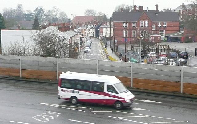 Part of Old Coley, near to Reading, Great Britain. Taken from a pedestrian bridge over the Inner Districbution Road (IDR). This clearly shows how the houses, and a school playground, are close to Reading's central road network. At one time, before the road was built in the early 1970s, this whole area from the town centre behind me out to here consisted of rows of terraced houses. Most of those have gone and the few remaining have a view of a road barrier. The minibus rushing to its next job is operated by Readibus, a charity providing accessible transport for disabled people in the Reading area.